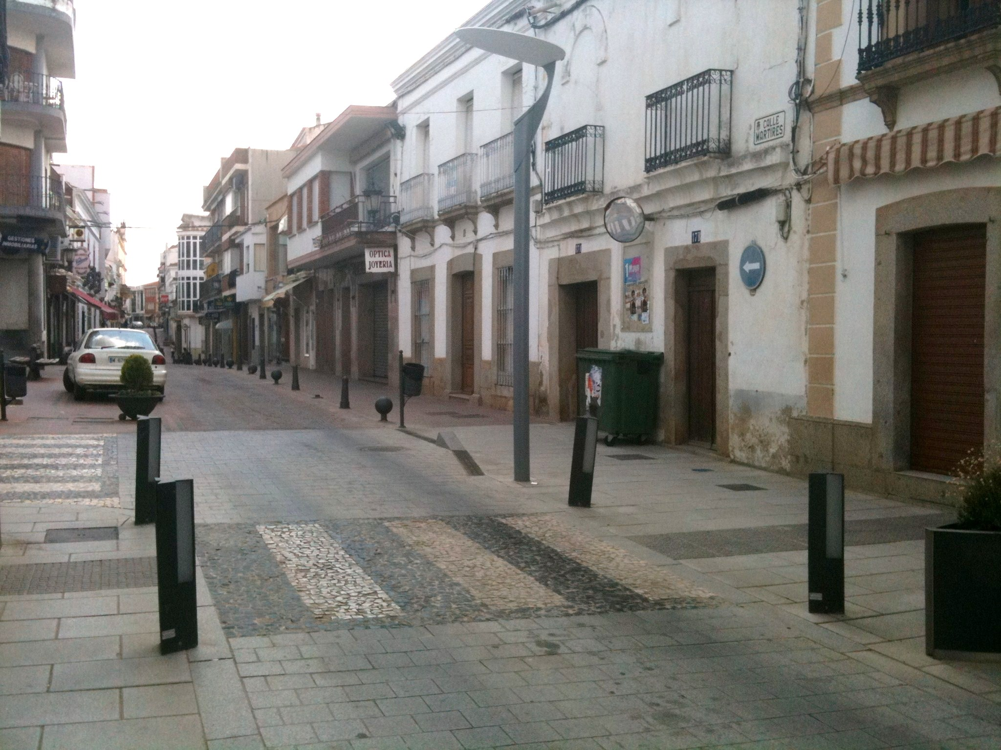 Santa Ana Street in Castuera (Badajoz, Spain)